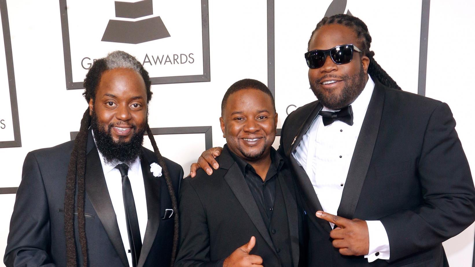 Morgan Heritage 2016 Grammy Photo